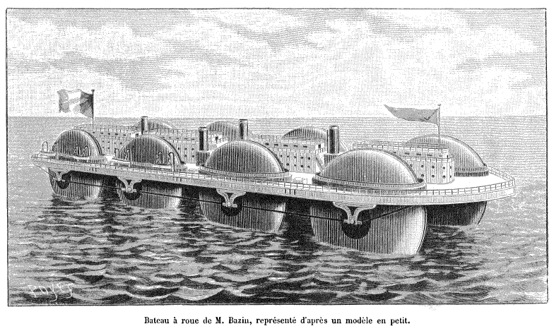 View of the planned full-scale Bazin roller boat, taken from a small model